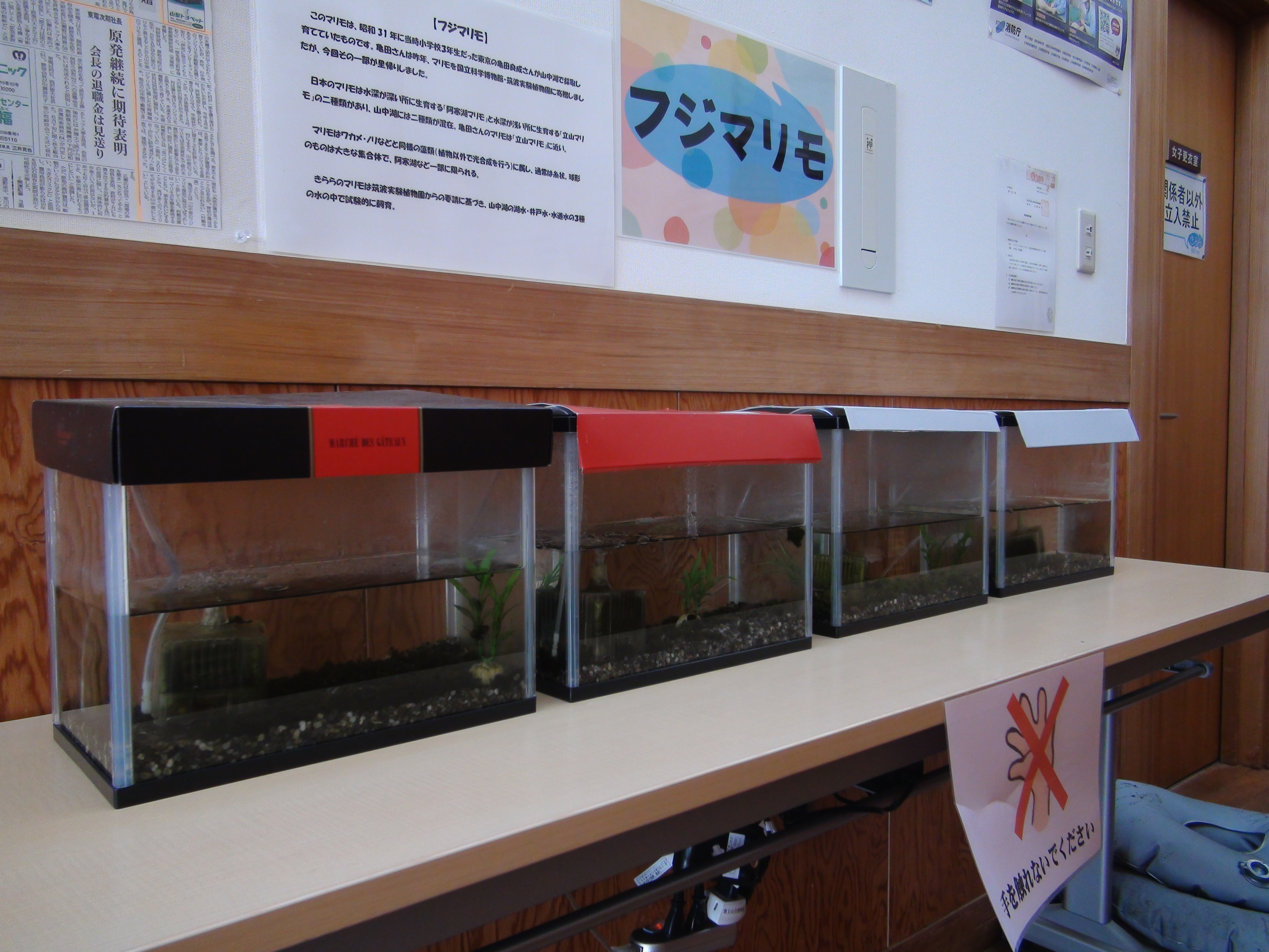 Aegagropila linnaei var. Yamanakaensis, which is reared in small aquarium